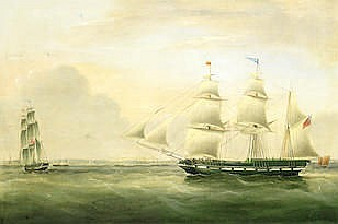 oil on canvas; 61 x 92cm (24 x 36 1/4in).